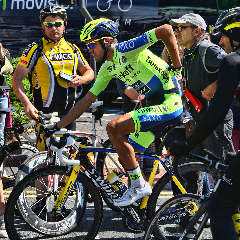 Alberto Contador leaves his team bus and heads for the start of the 2014 Tour de France in Leeds, Yorkshire.